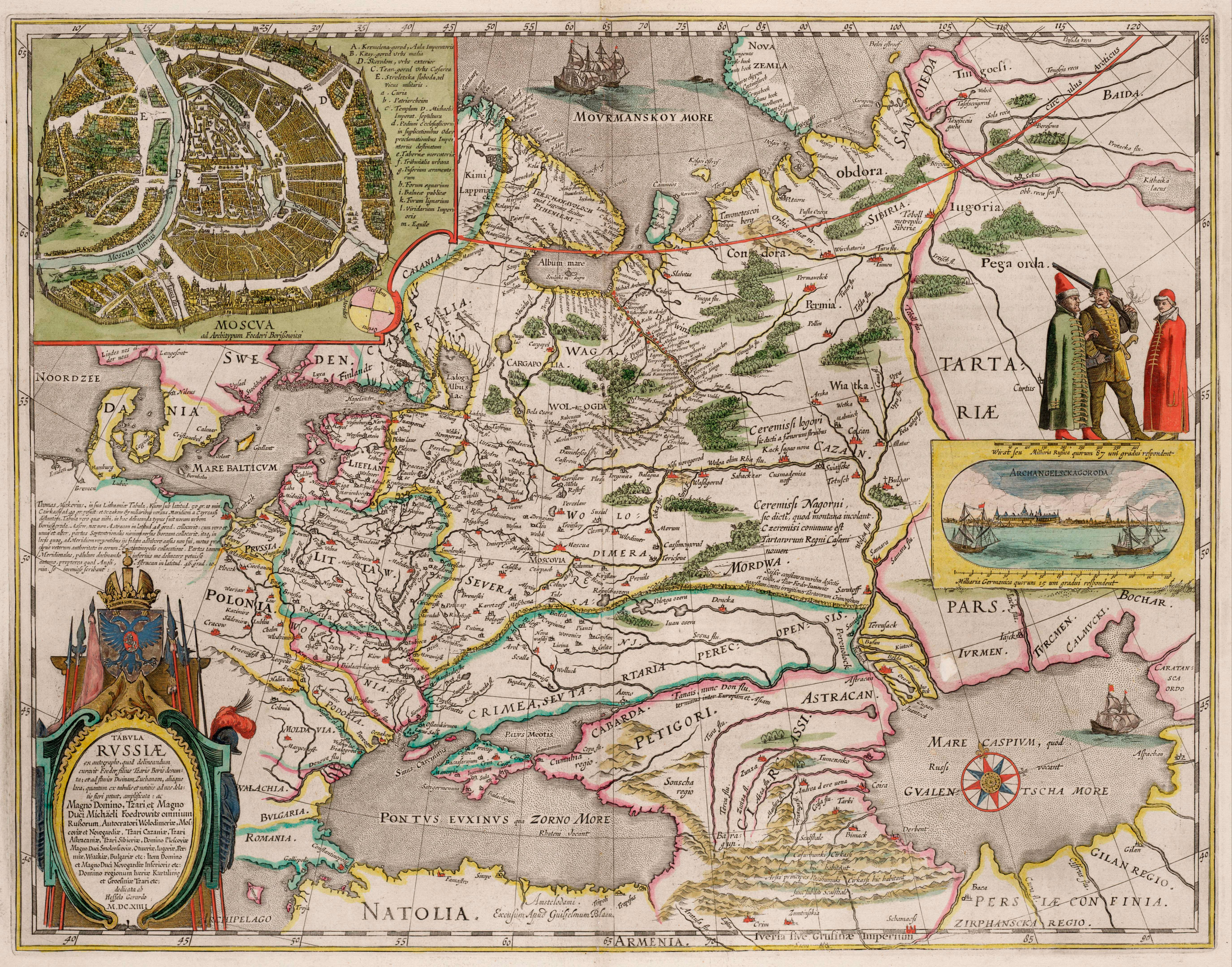 Map of Muscovy (the so-called Fedor Godunov map)